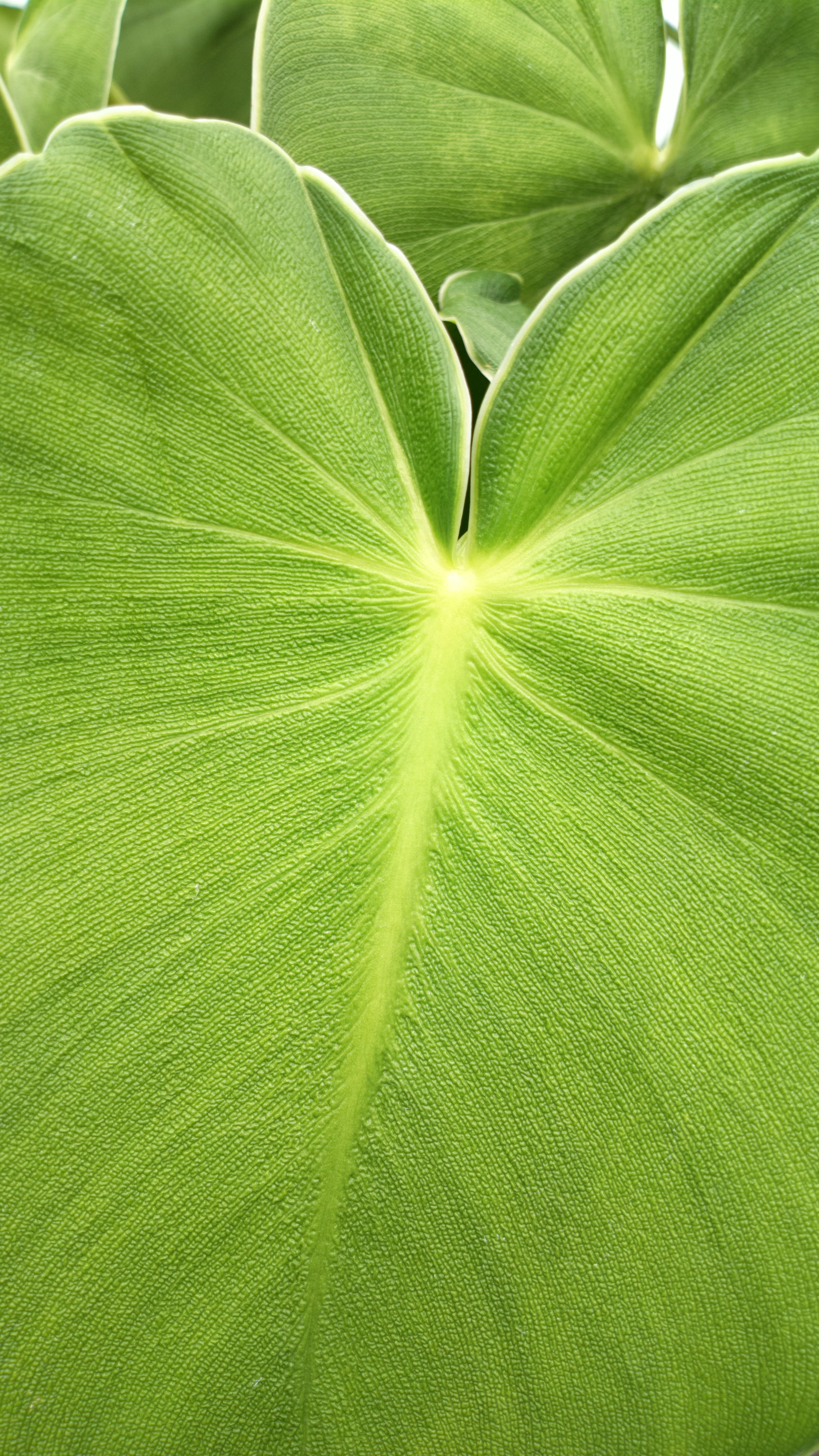 Philodendron rugosum is a species of plant in the Araceae family. It is endemic to Ecuador. Its natural habitat is subtropical or tropical moist montane forests. It is threatened by habitat loss.